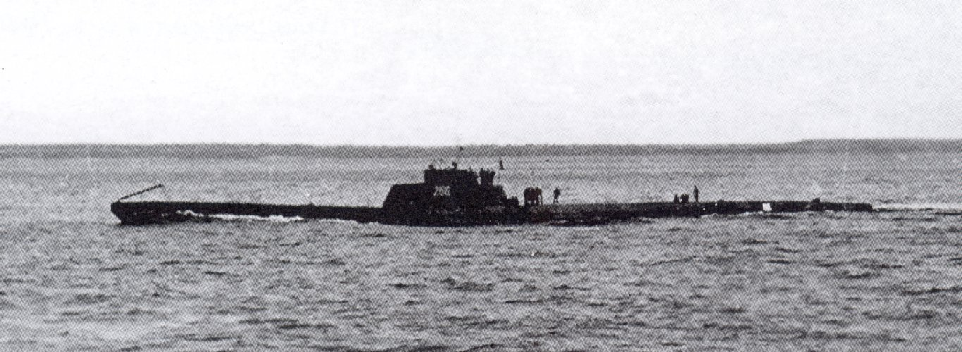 soviet submarine S-1 at sea trials. Without 100 mm gun